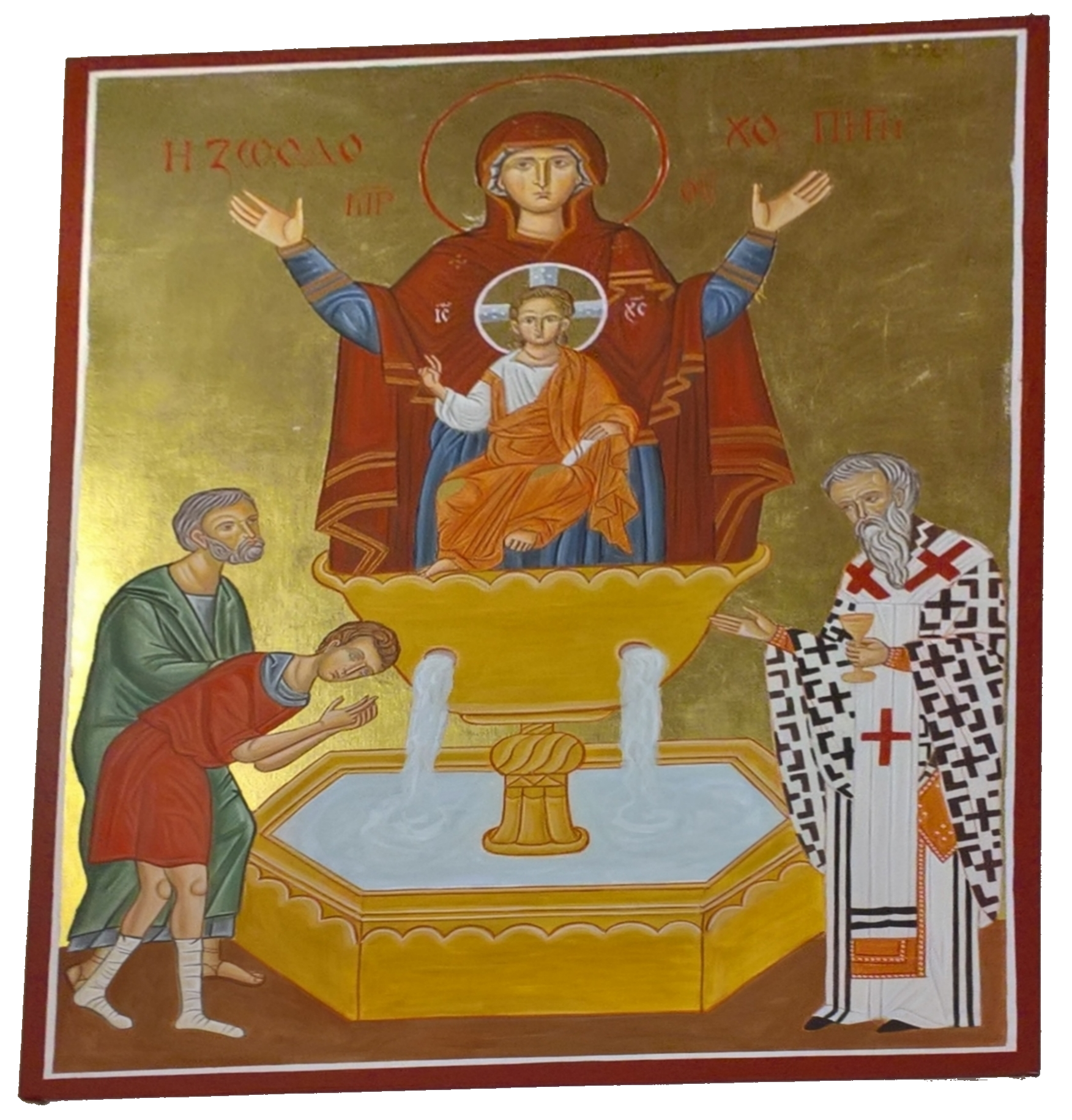 Byzantine icon